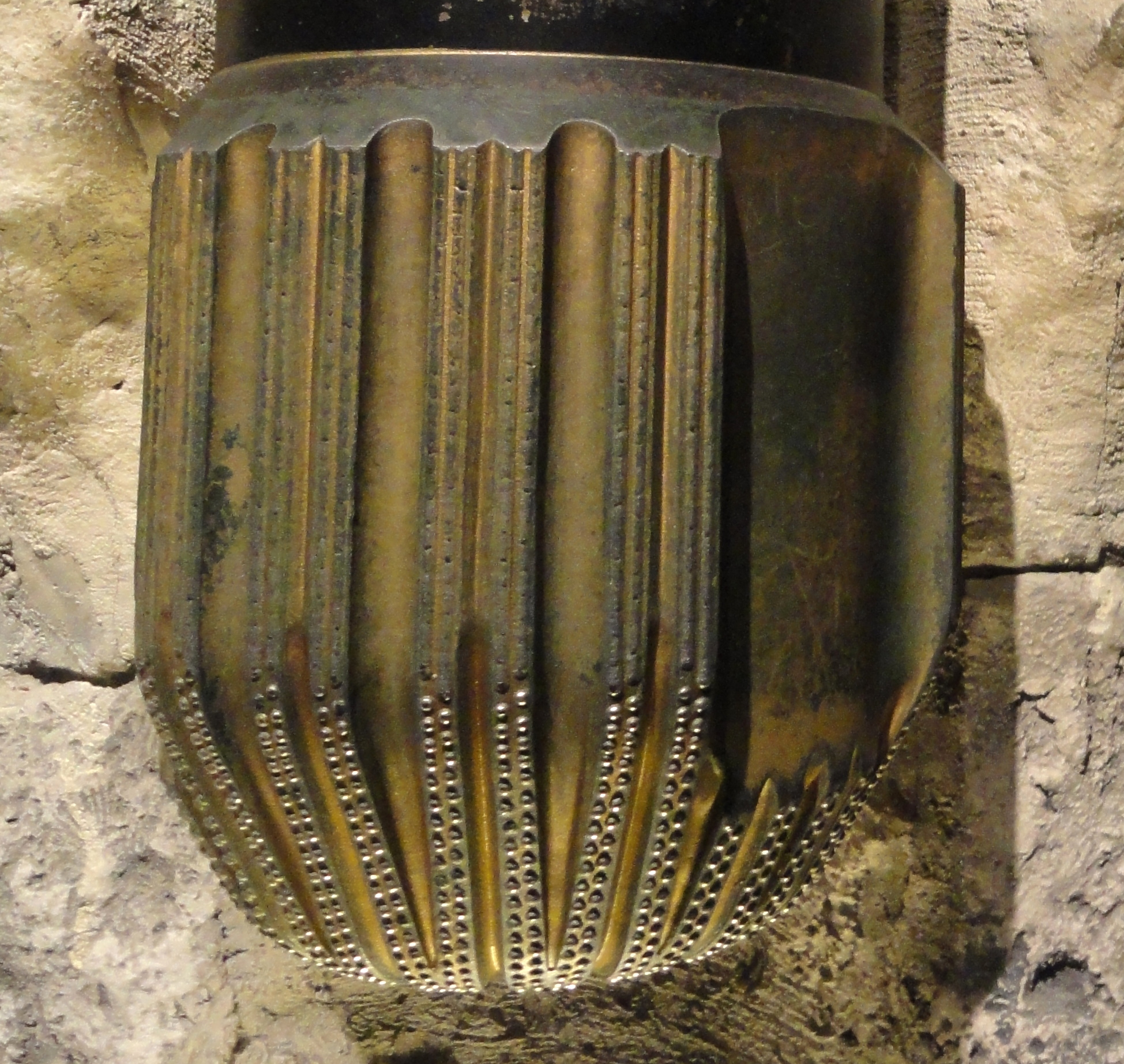 Exhibit in the Houston Museum of Natural Science, Houston, Texas, USA.